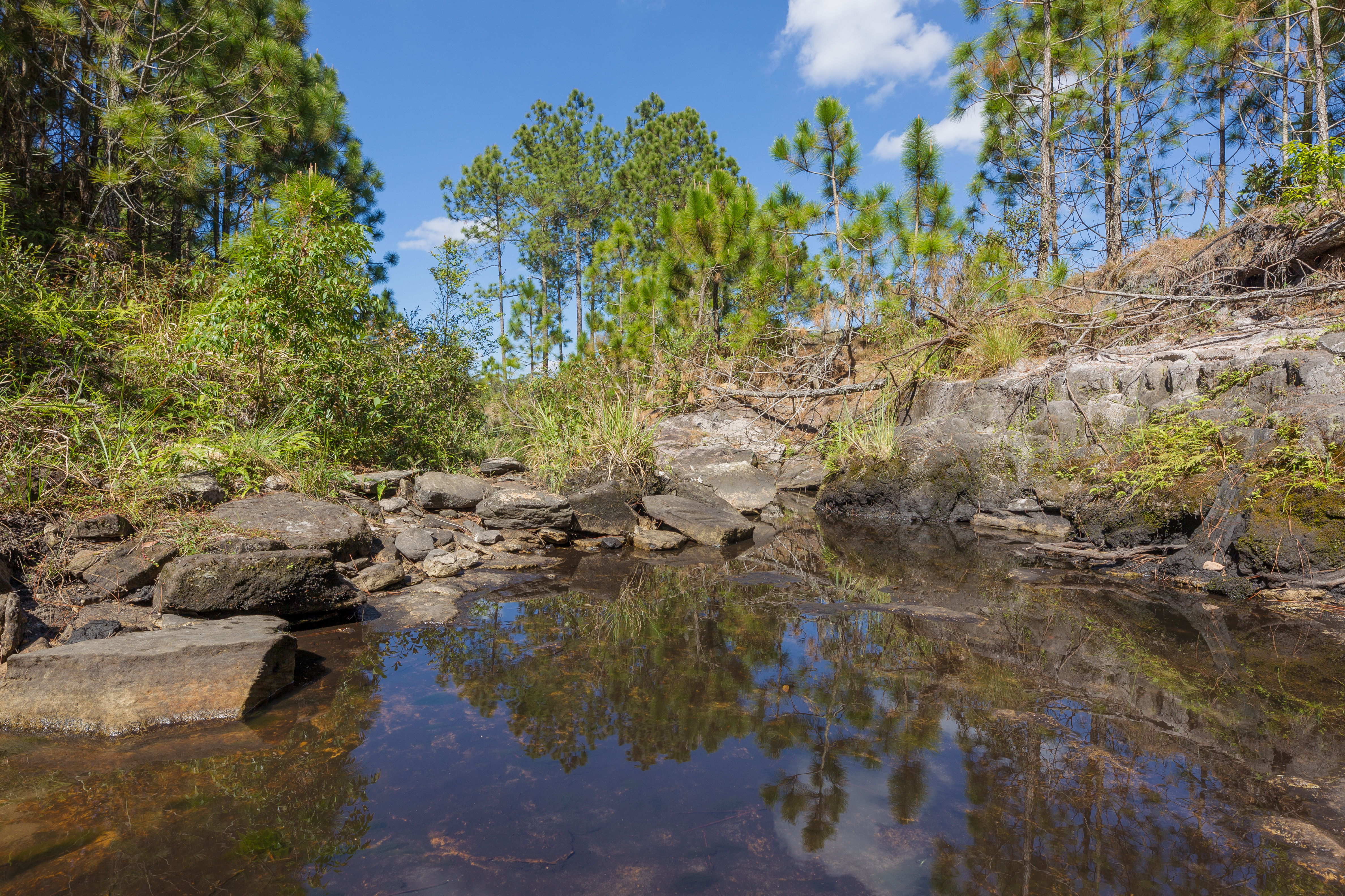 Anodard Pond at Phu Kradueng National Park in the Si Than sub-district of Amphoe Phu Kradueng, Loei Province.